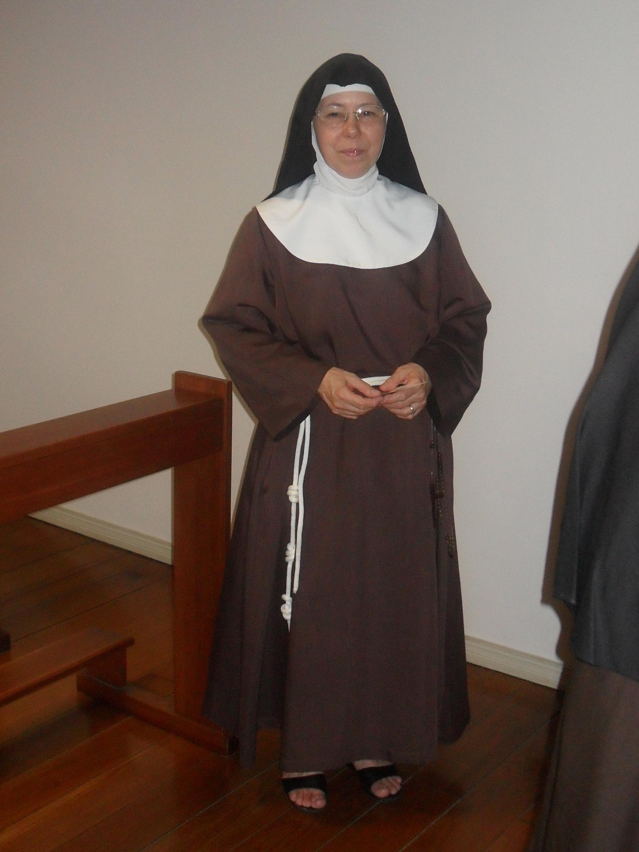 Poor Clares sister